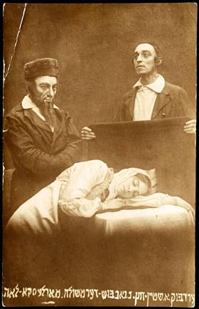 Left to right: Noach Nachbush, Miriam Orleska and Alexander Stein in a Vilner Trupe production of Der dibek (The Dybbuk), Poland, 1920s. (YIVO)